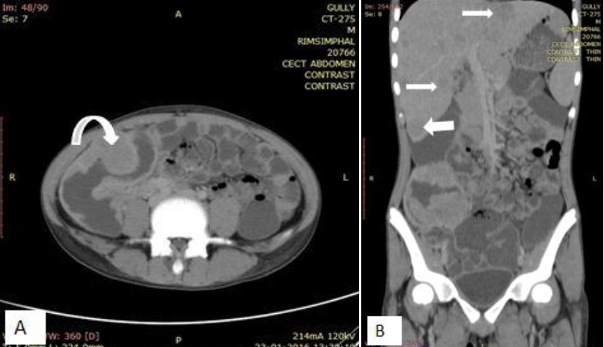 CT of abdominal non-Hodgkin lymphoma